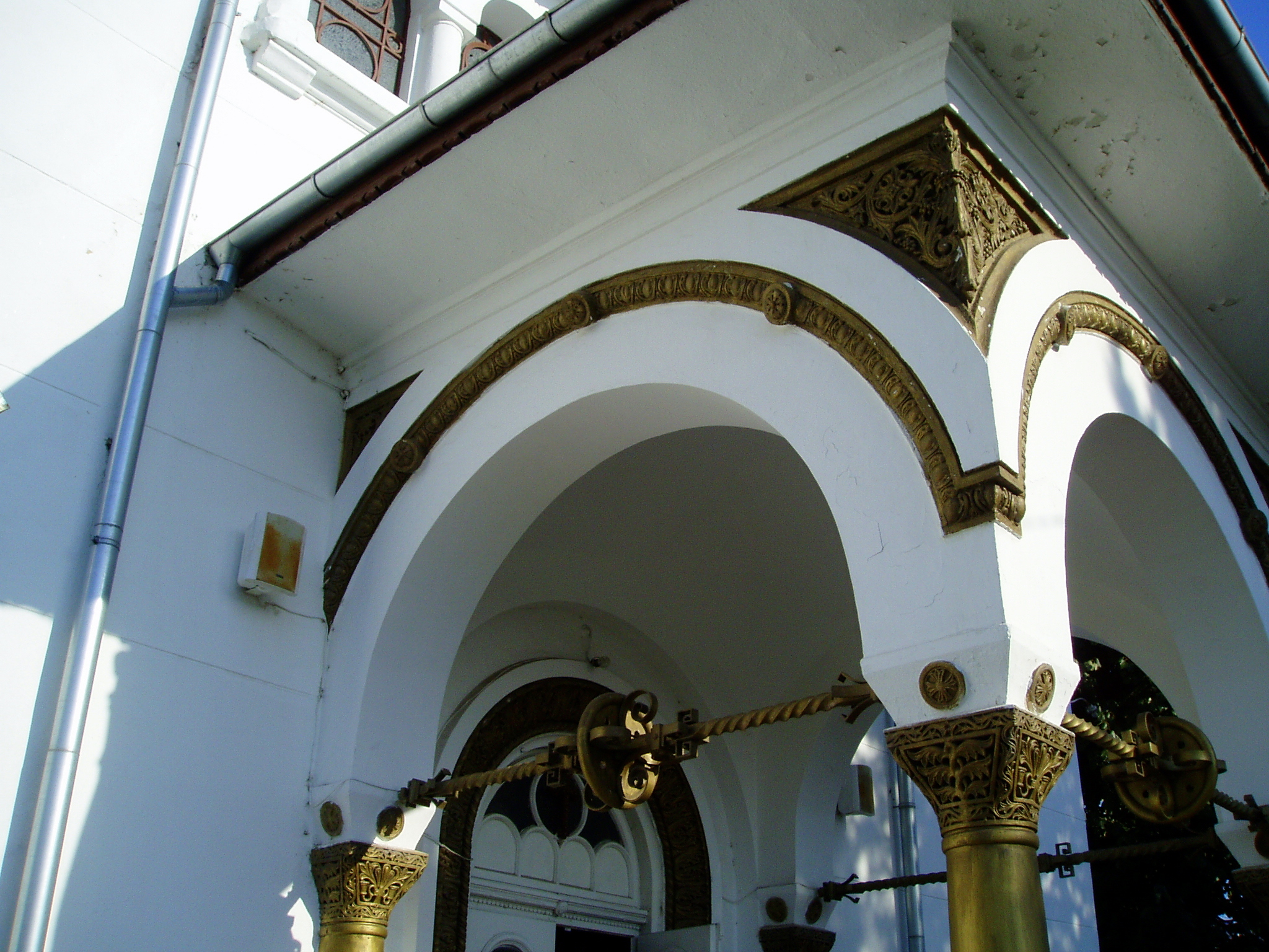 St Haralambie Church in Ploieşti, Romania. Architect (renovation, consolidation and major alterations in 1931-1932) : Toma T. Socolescu. This building is located at Măraşeşti street nr34, Ploieşti, Judeţul Prahova, Romania. We are the only heirs and descendants of Toma T. Socolescu (died in 1960 in Bucharest) and therefore owner of all his intellectual rights.